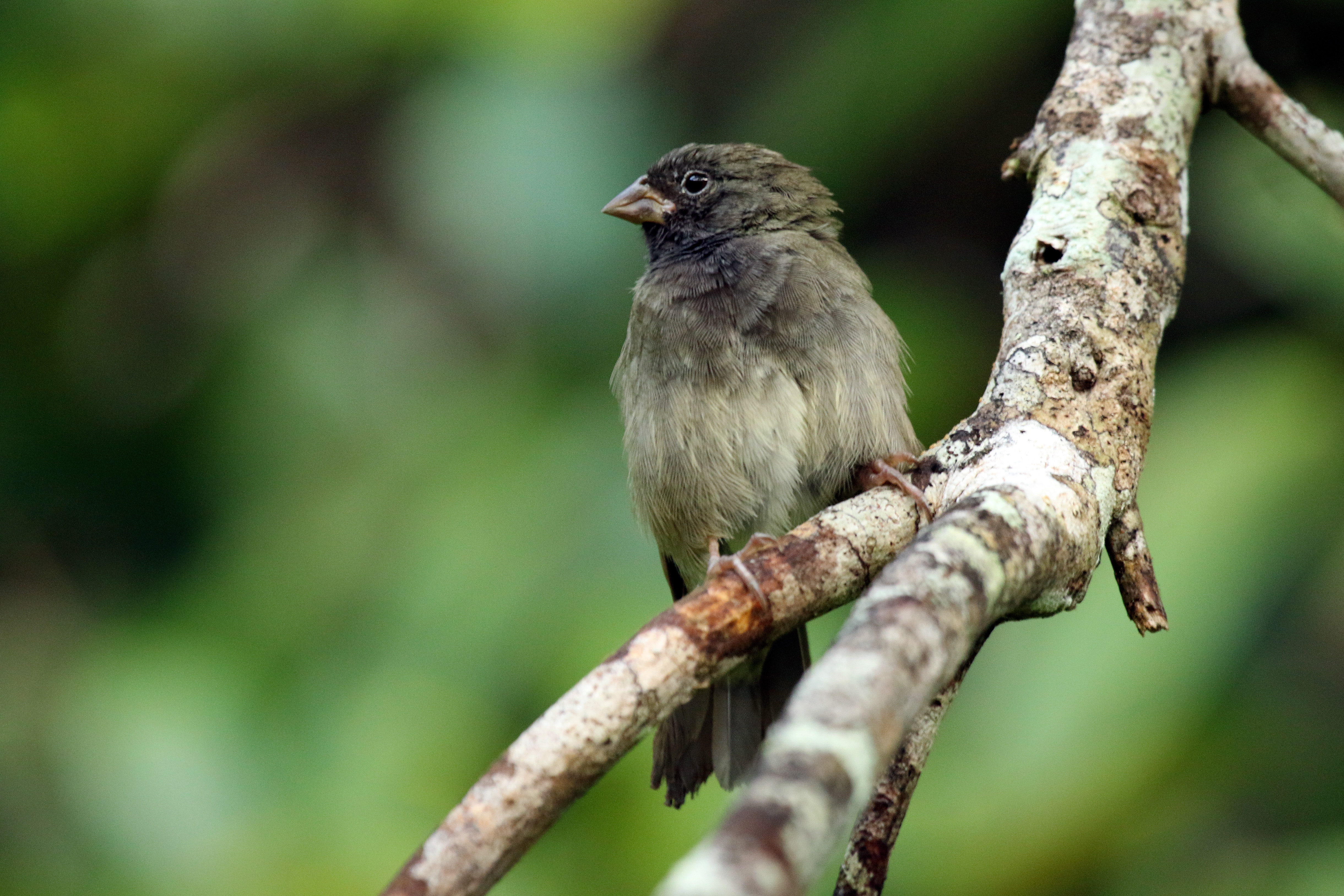 Black-faced grassquit (Tiaris bicolor) male, Jamaica